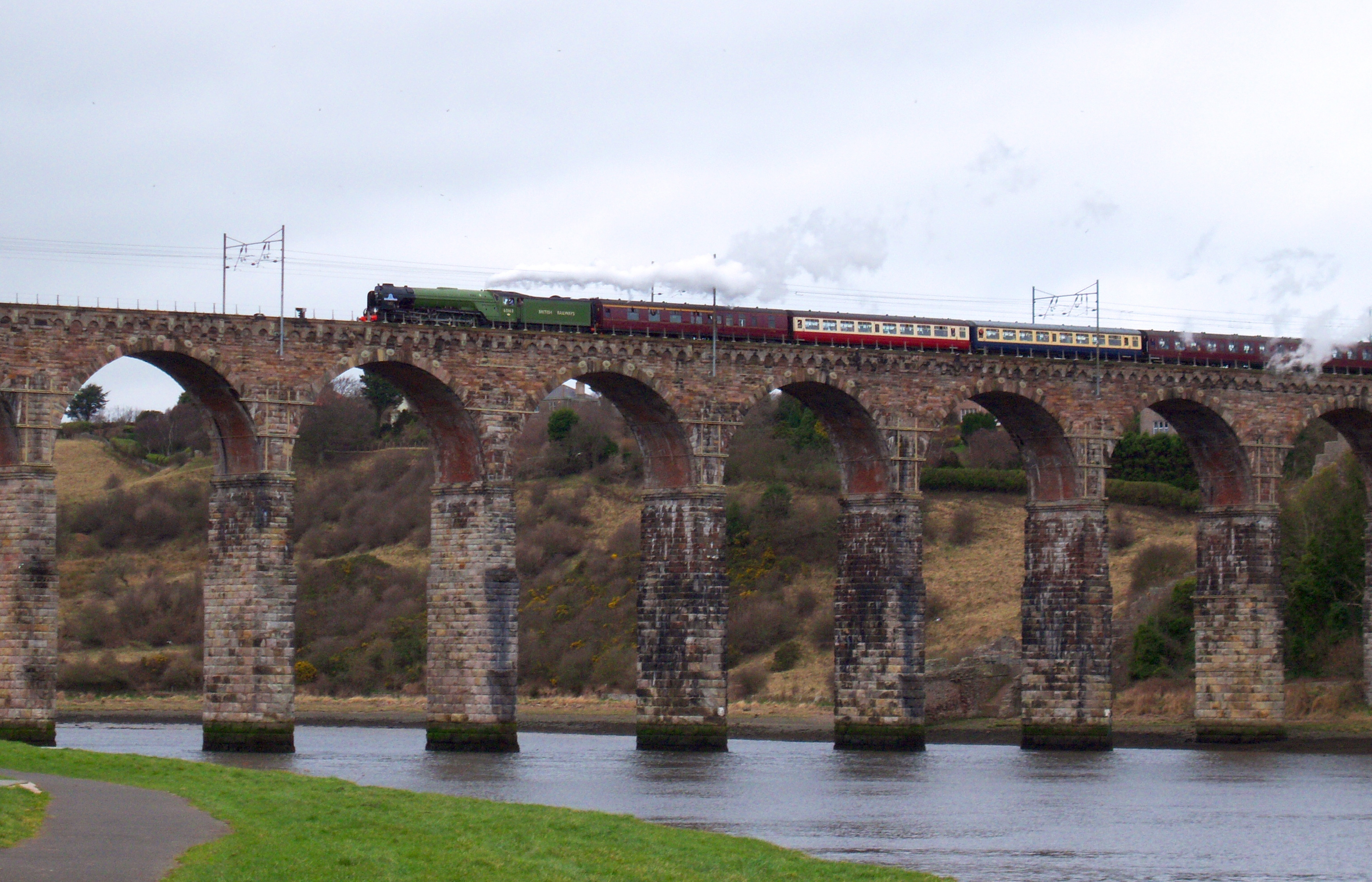 Brand new steam locomotive 60163 Tornado crosses the Royal Border Bridge railway viaduct in Berwick-upon-Tweed, travelling south at the head of The North Briton charter train from Edinburgh to York. This was the first time Tornado had passed over the viaduct in the southbound direction, having crossed for the first time in northbound a week earlier, hauling The Auld Reekie Express from York to Edinburgh. Tornado is brand new Peppercorn A1 class locomotive completed in 2008. The Peppercorn A1 was the last type of express passenger steam locomotive that was used on this route on the East Coast Main Line from Scotland to London. None of the original 49 survived the scrapyard in the change to diesel, and later, electric traction. Tornado is coasting at this point, the steam above the locomotive is actually coming from the boiler safety valves and not the chimney, creating a false impression of a steam exhaust. Taken at 15:12 GMT from the south bank of the River Tweed, east of the bridge, Tornado was approximately 15 minutes early for arrival in Berwick, and proceeded to Tweedmouth sidings on the other side of the bridge to take on water.